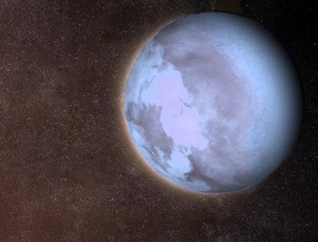 For copyrights, see Image:Gliese.JPG (the original image that this image was derived from) The copyright tag found in Image:Gliese.JPG is the following: The original author was Hervé Piraud